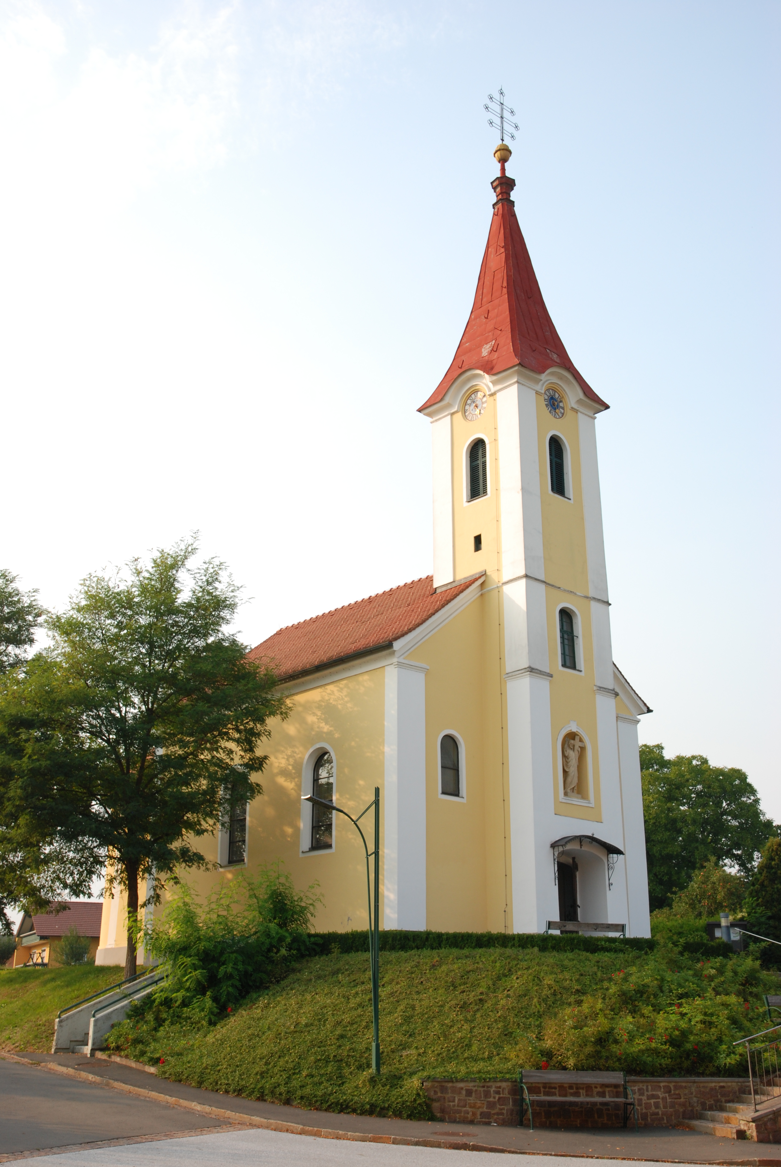 Kirche Mettersdorf am Saßbach